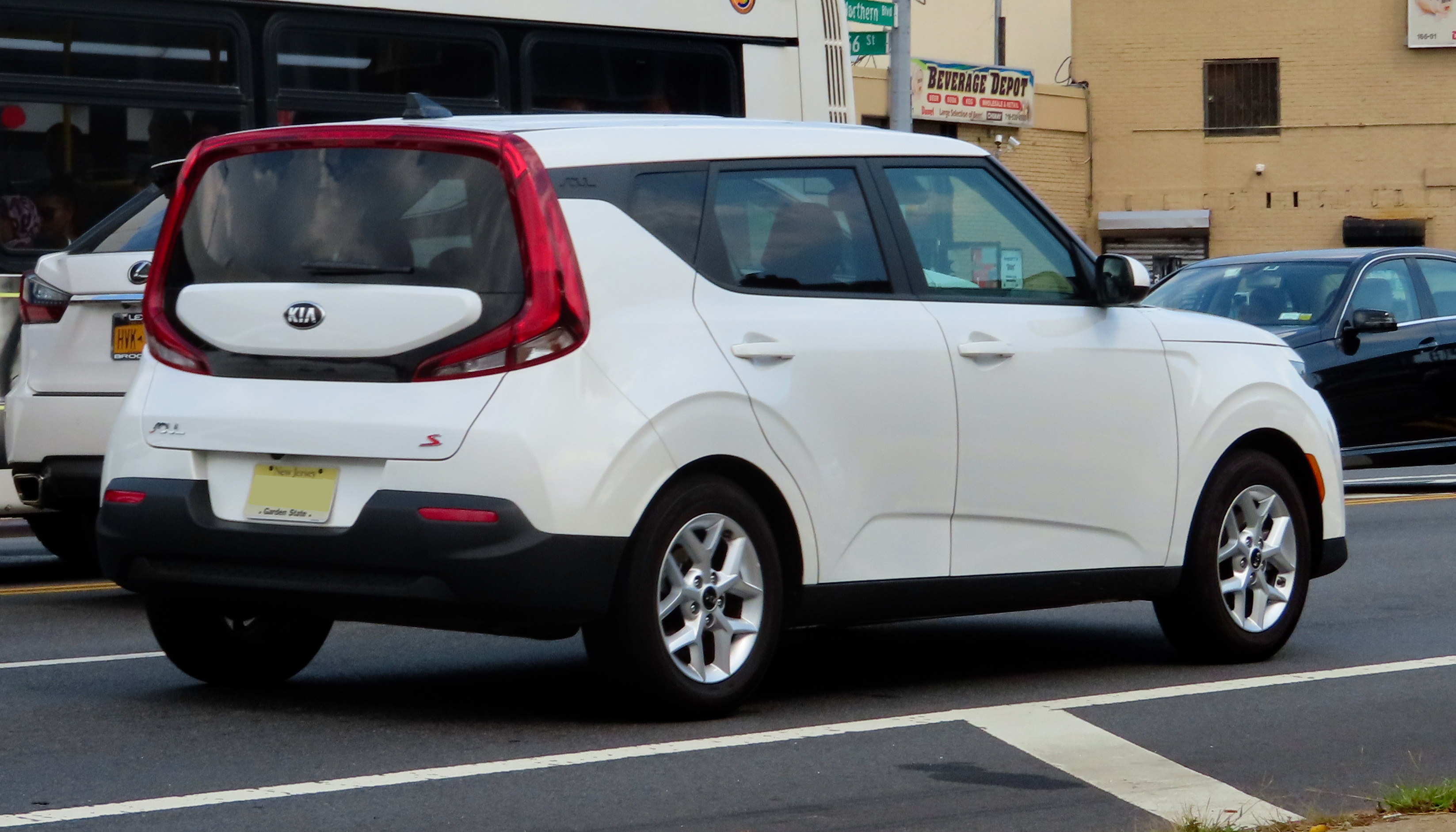 A 2020 Kia Soul S photographed in Flushing, Queens, New York, USA